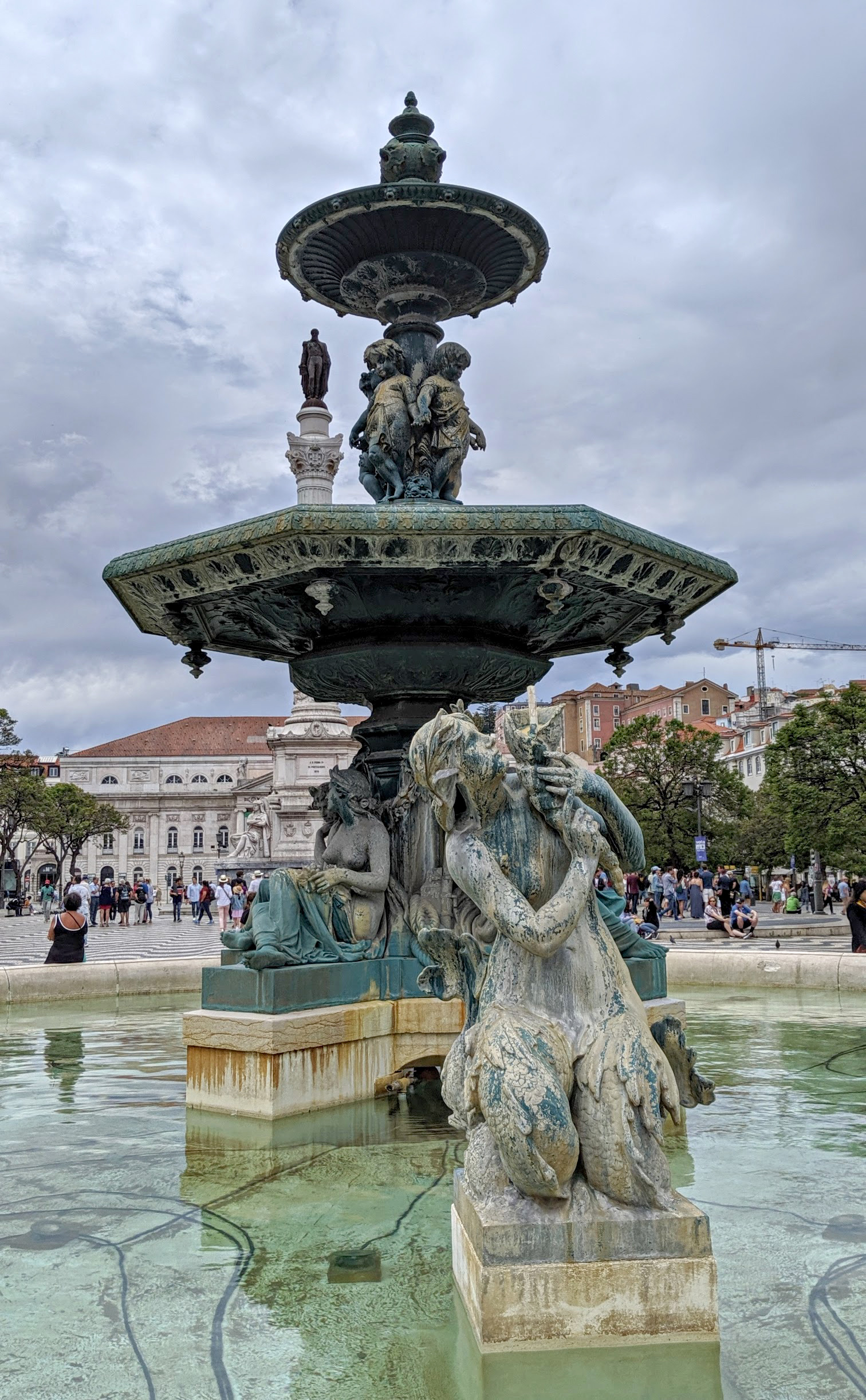 Rossio south fountain and Dom Pedro IV monument, Lisbon, Portugal